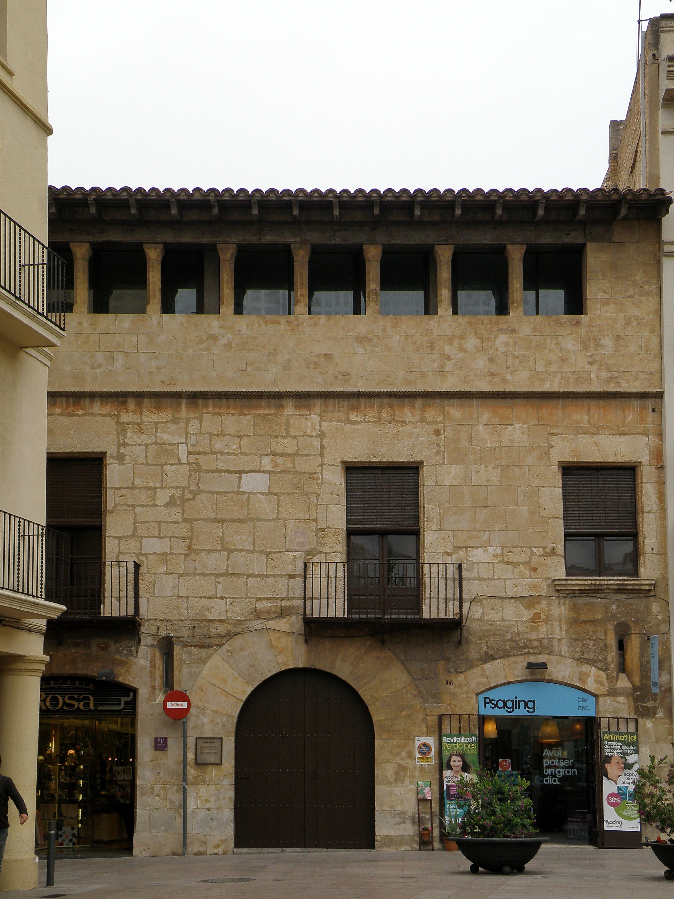 Casa Macià, documented since the 15th century